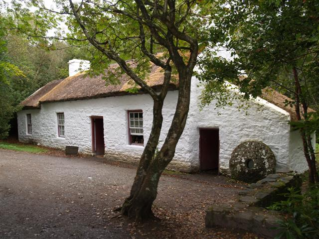 Weaver's Cottage, Ulster American Folk-park It is well hidden amongst the trees